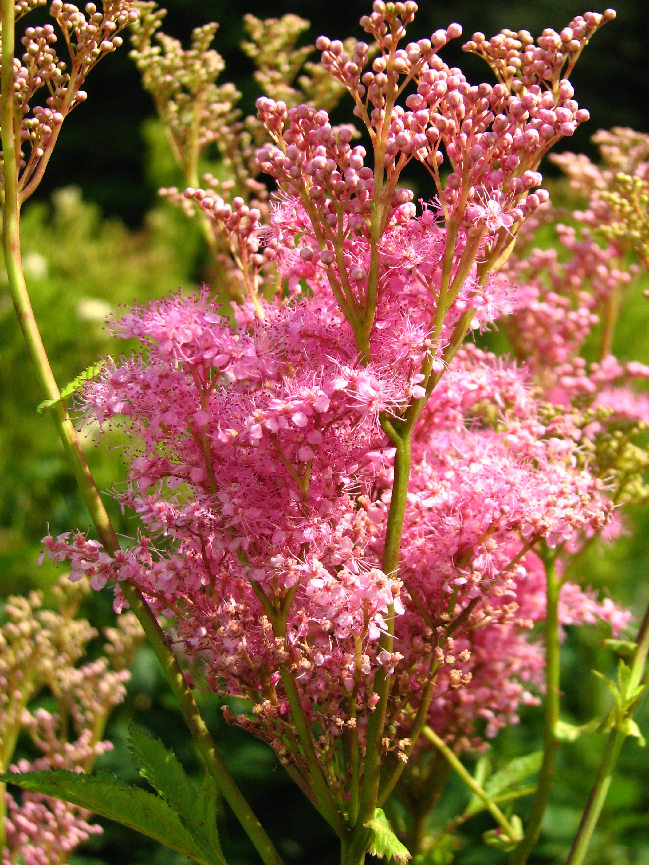 Filipendula rubra 'Venusta'. From the collection of the Main Botanical Garden of Academy of Sciences in Moscow (perennials plot).